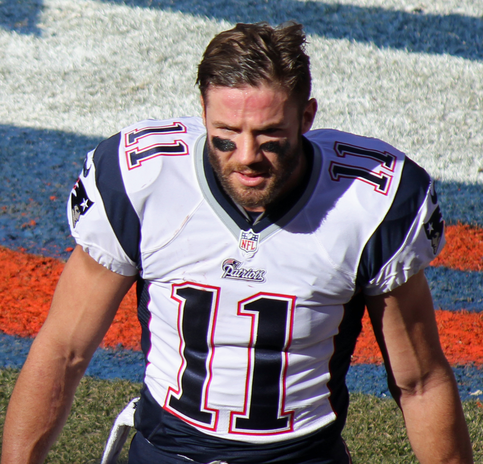 Julian Edelman, a player on the National Football League.